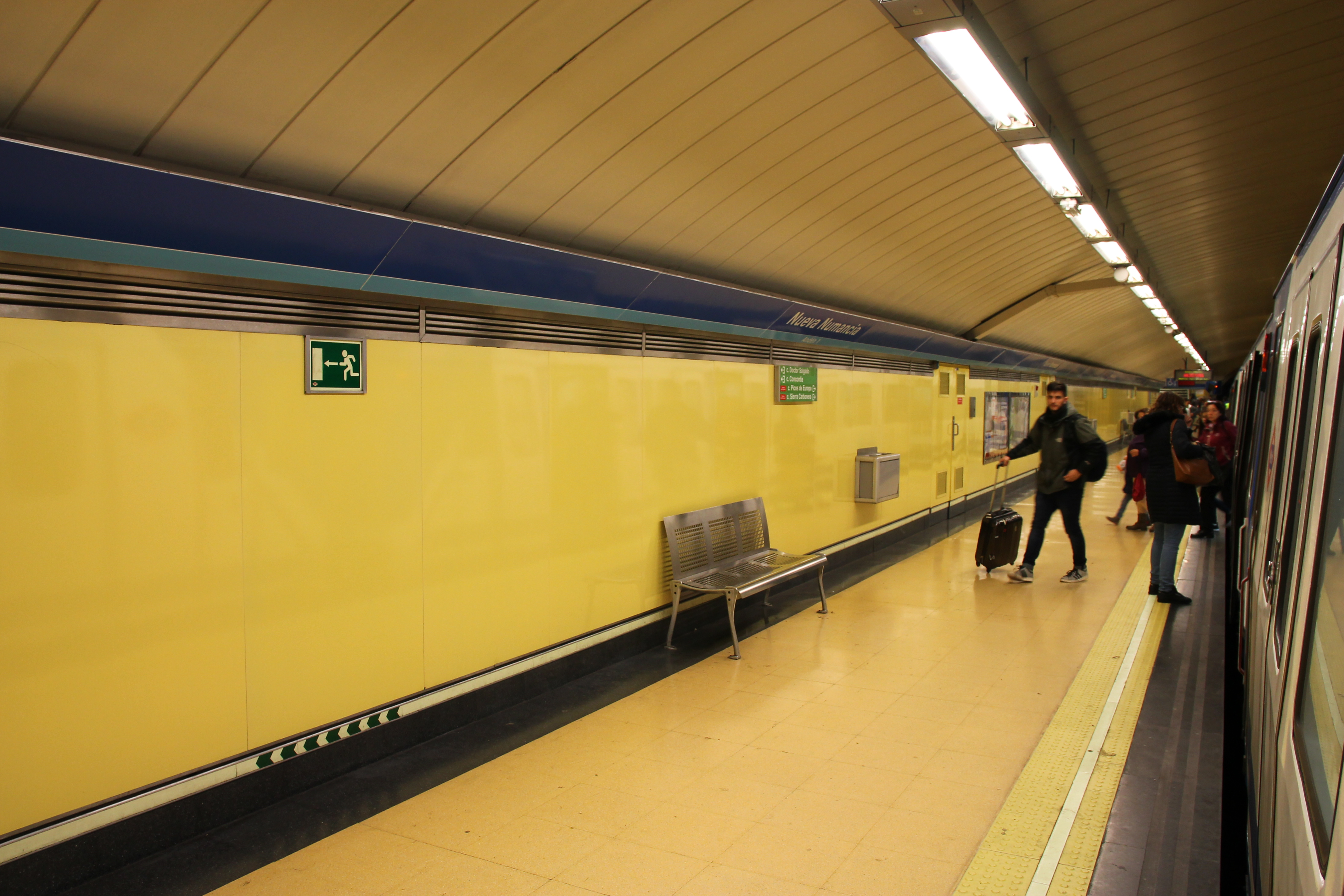 Nueva Numancia station. Madrid Metro.